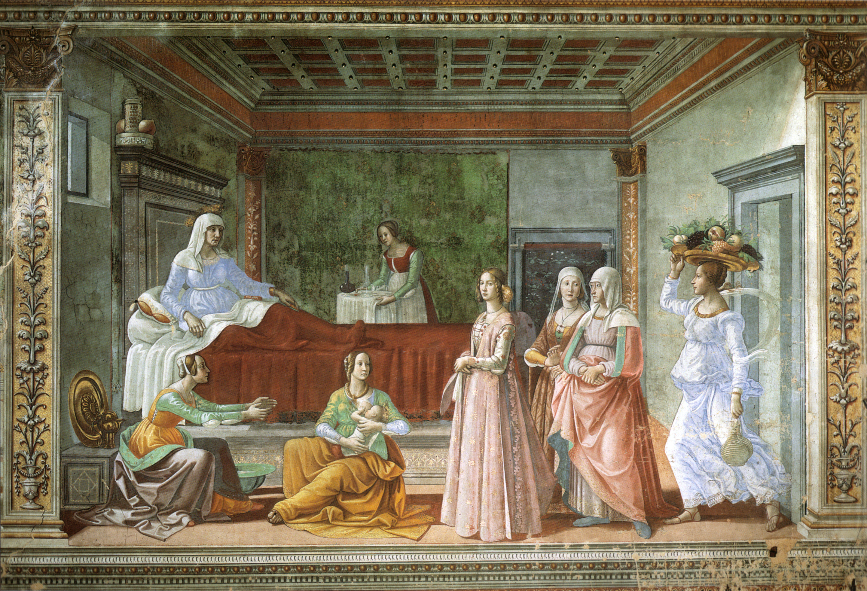 cappella tornabuoni frescoes in florence - Birth of St John the Baptist (c 1486-90)